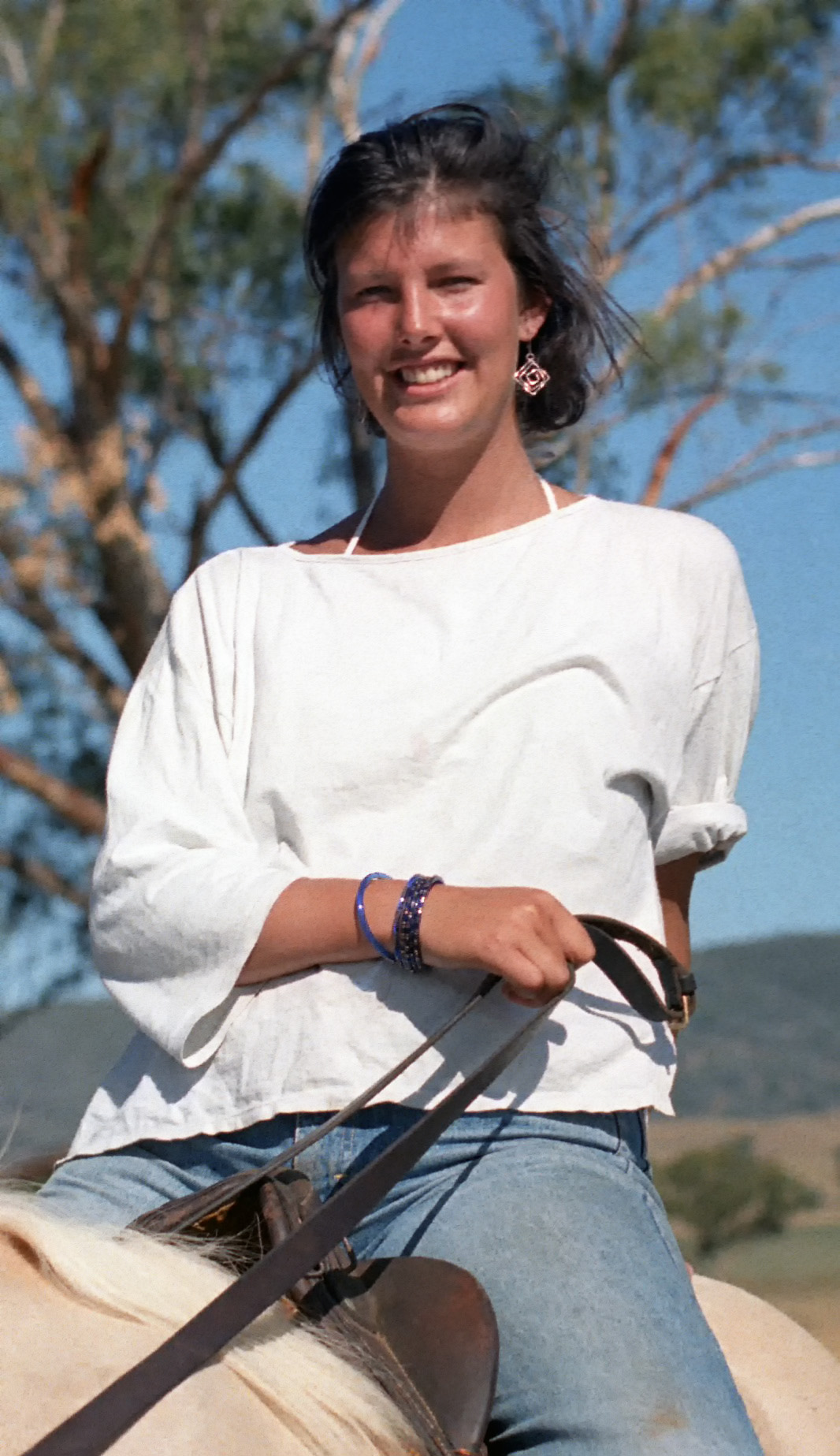 Emma Mccune riding in Eastern Australia